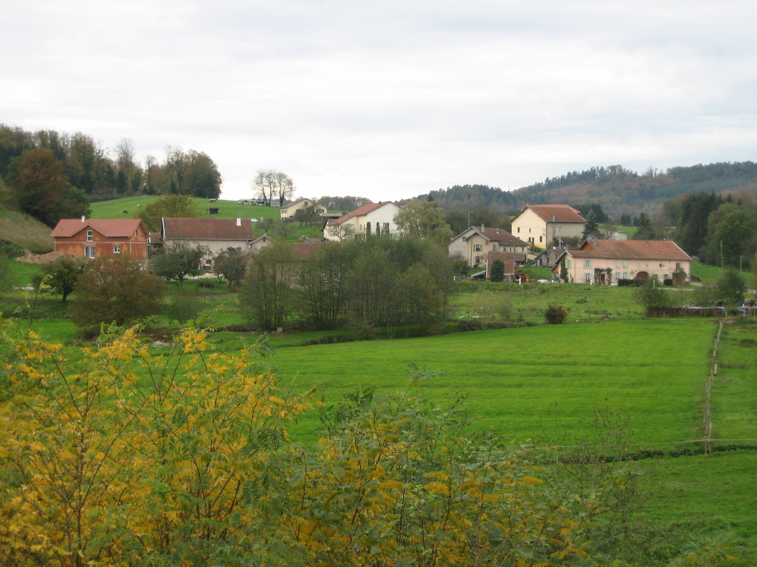 View of the Rupt du Void in Deycimont (VOsges, France), 2006/10/28, by Raphaël Tassin (raphdvoj)